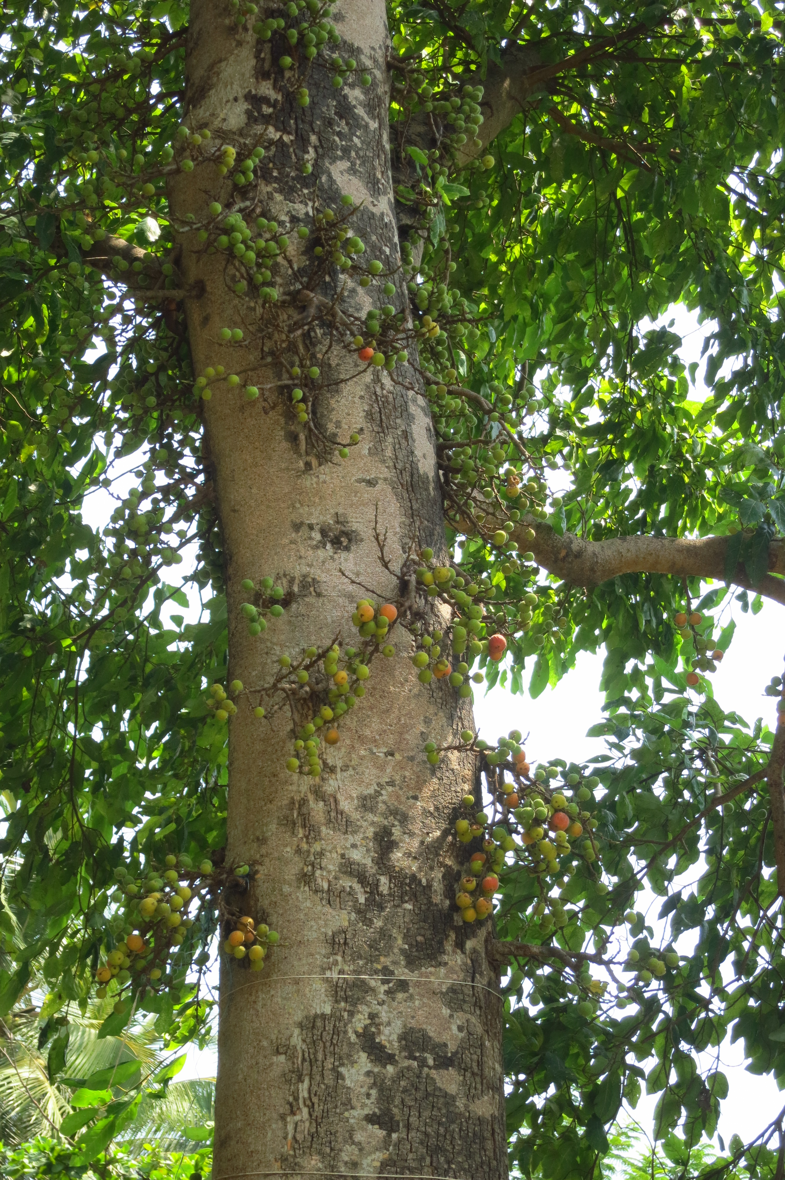 Ficus racemosa